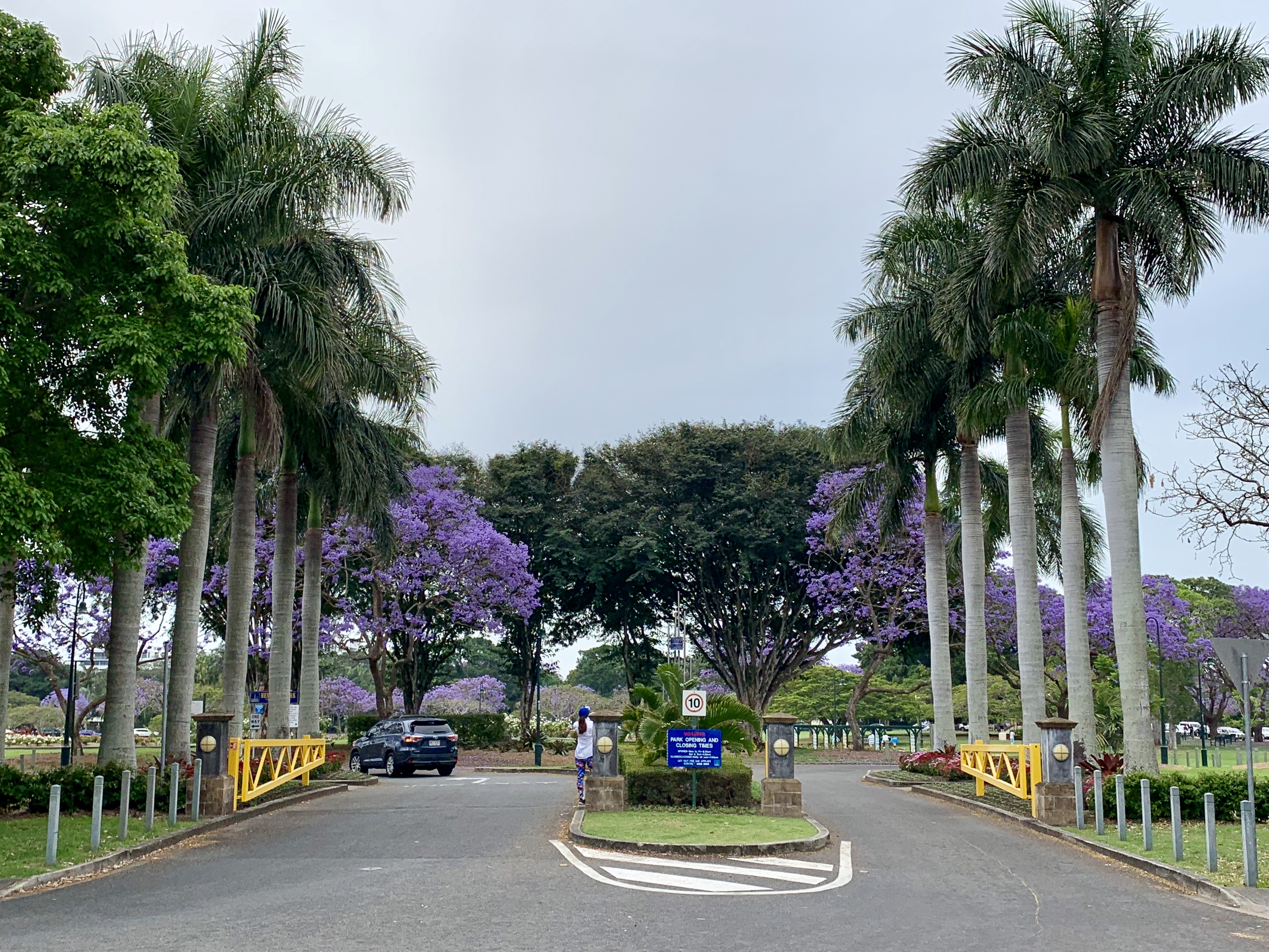 Vehicle entrance to New Farm Park, Queensland